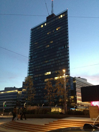 A photo of Kista Science Tower taken on October 29, 2011.